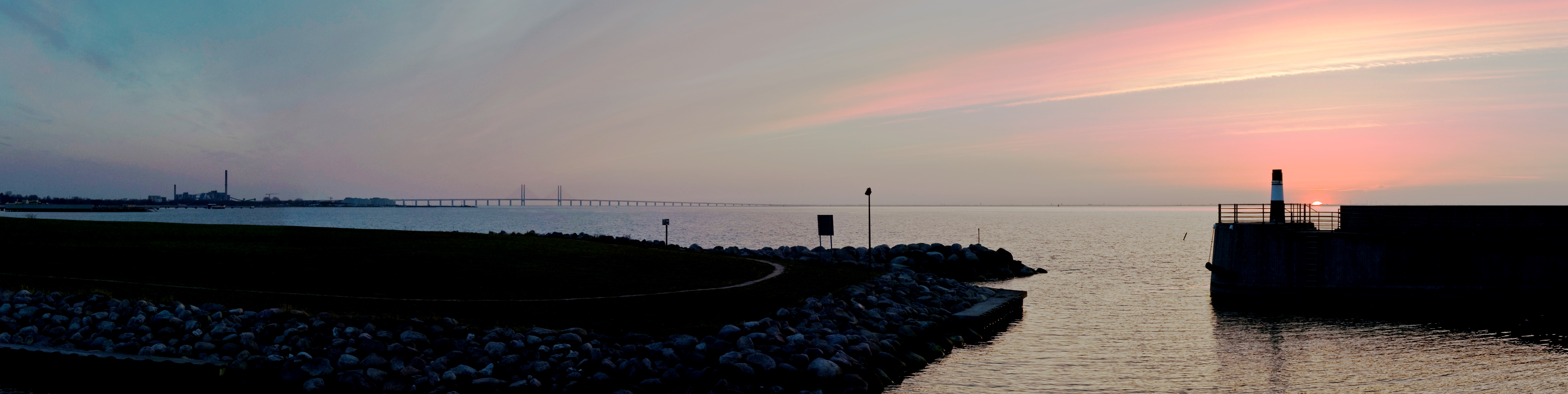 Looking out across the Oresund Strait from Västra Hamnen, Malmö. Visible is the Oresund Bridge and Copenhagen skyline. Taken during the eruption of the Eyjafjallajökull volcano, while the ash cloud was passing over.